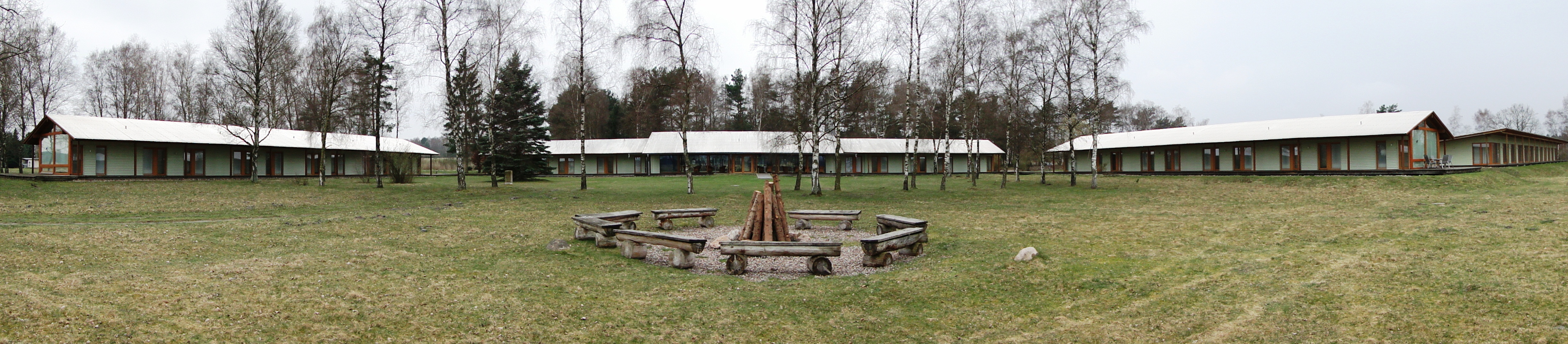 Hotel at Camp Reinsehlen, Lower Saxony, Germany